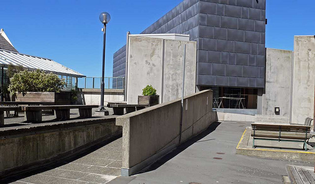 This photo was taken on February 13, 2009 in Kelburn, Wellington, Wellington, NZ.